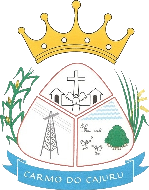 Coat of Arms of Carmo do Cajuru, a municipality of the Brazilian state of Minas Gerais